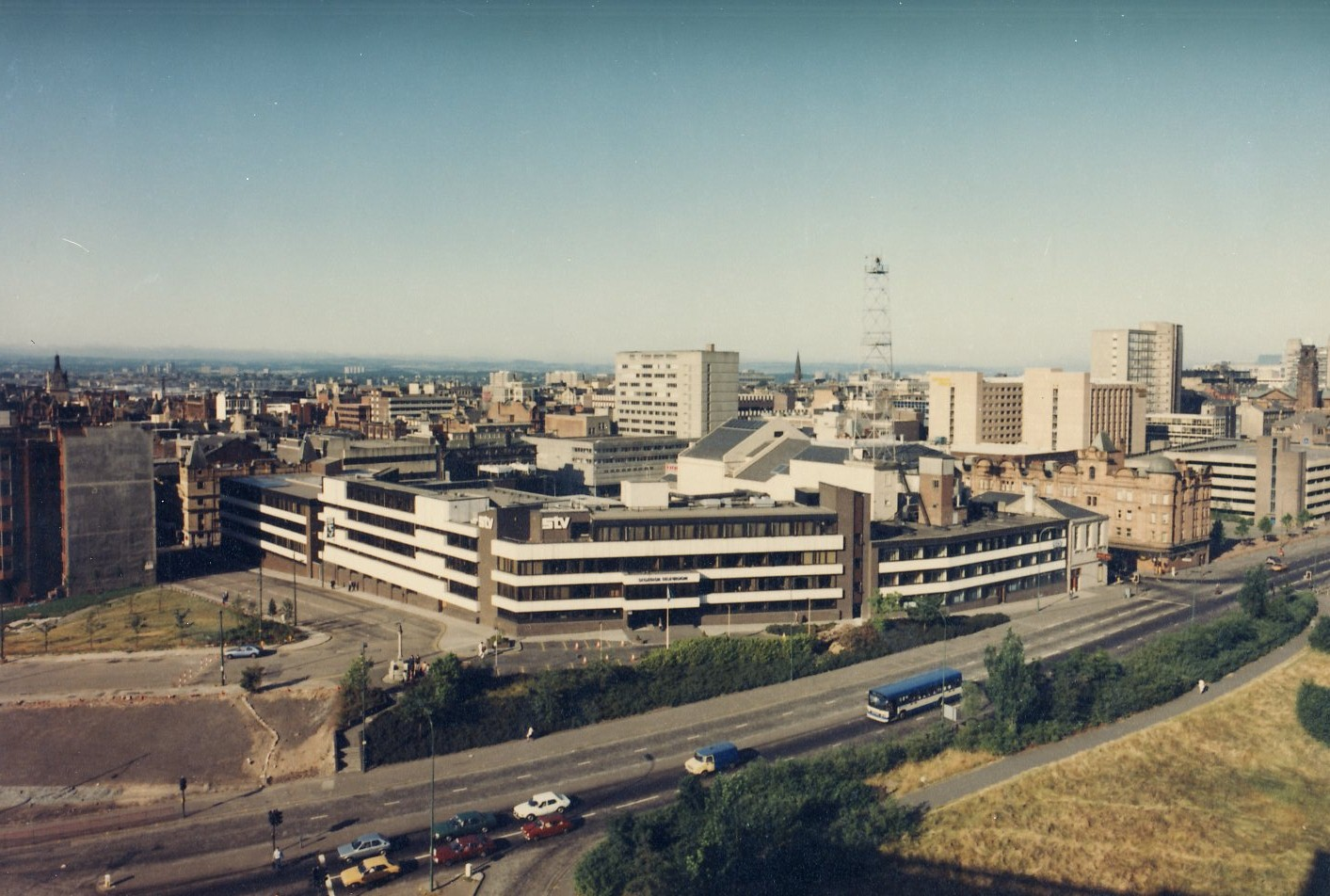 STV HQ Cowcaddens (1984). Note the original interlinked 'stv' logo on the top floor.